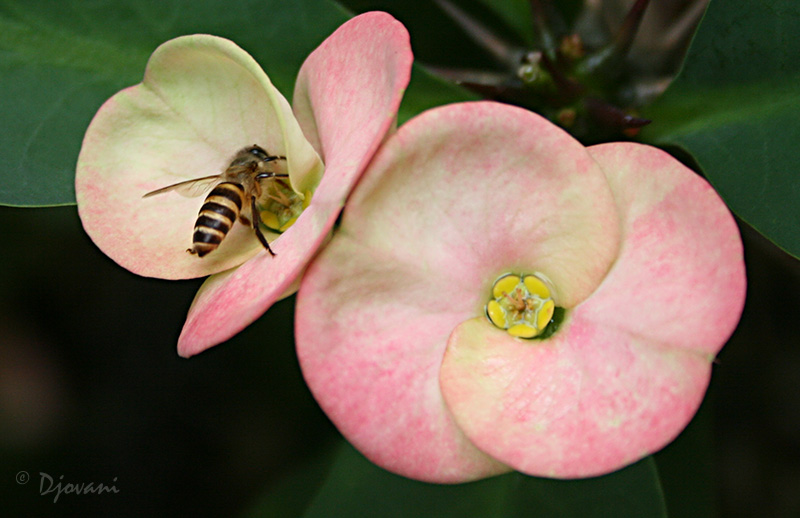 An Apis cerana (Asiatic honey bee, Eastern honey bee) collecting pollenEesti: India meemesilane